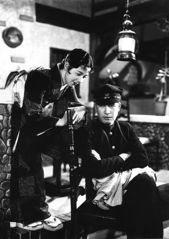 Yoshiko Okada and Den Obinata in Tonari no Yae-chan (1934)